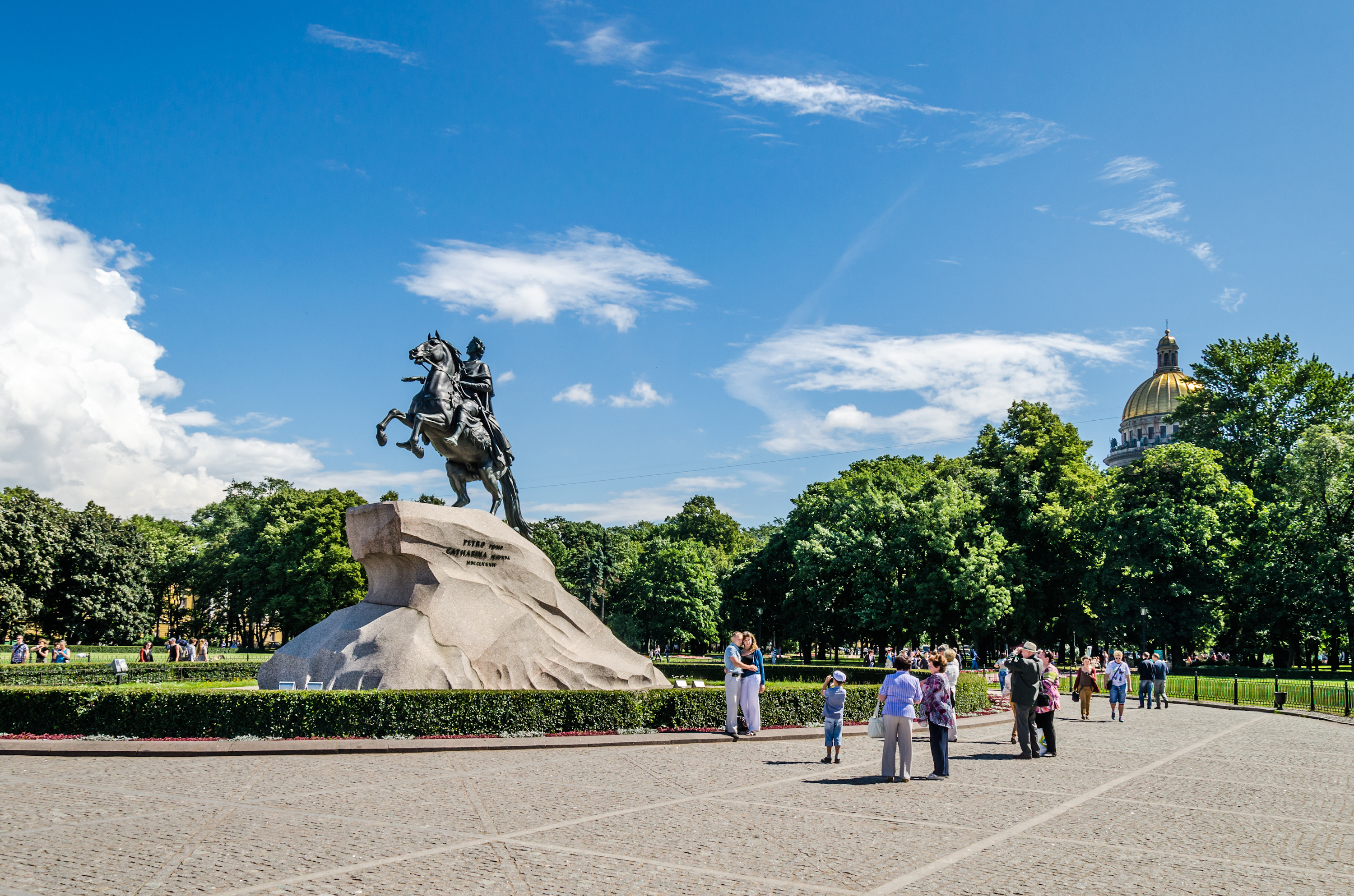 Senate Square in Saint Petersburg